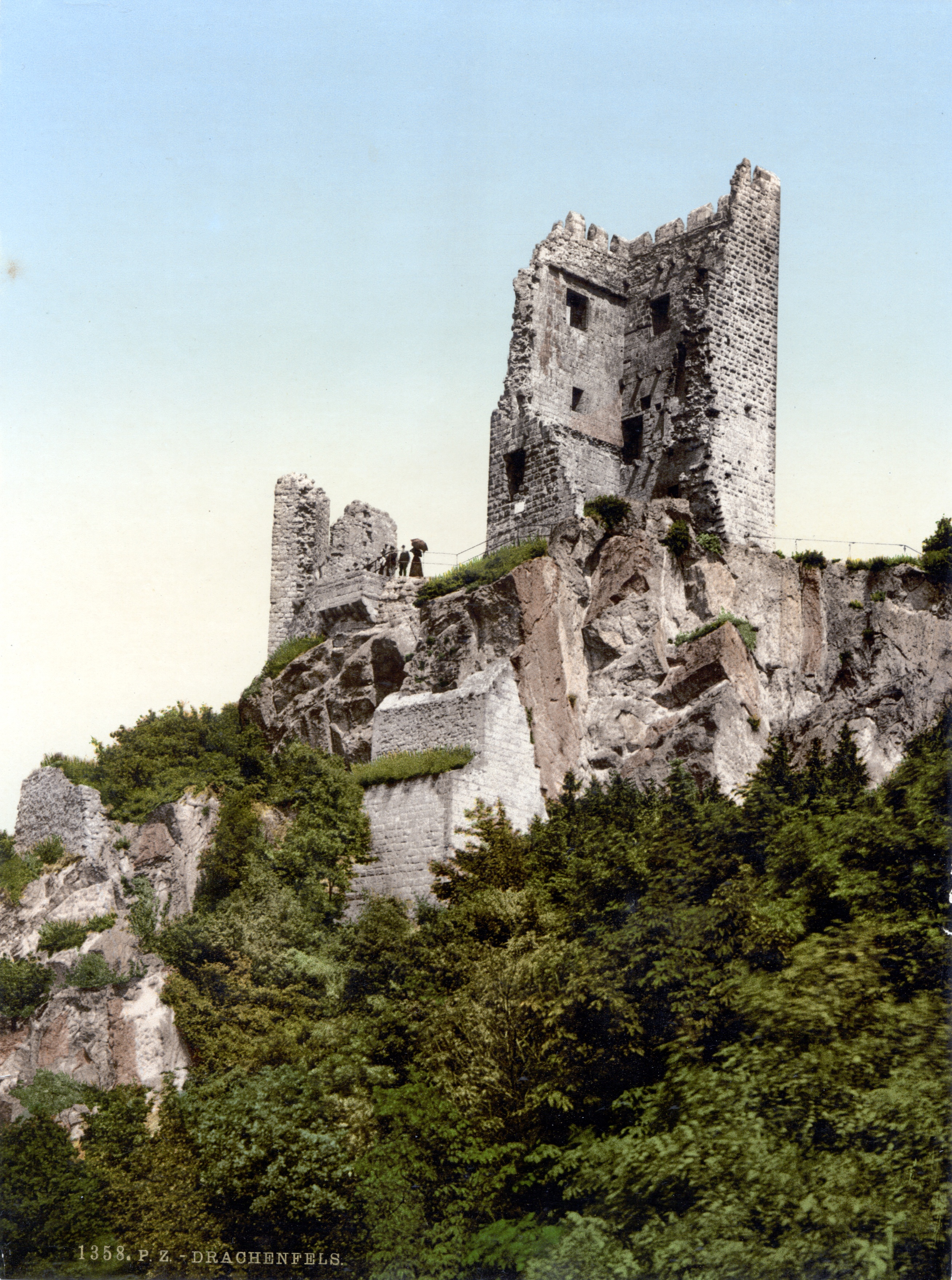 Ruin of the Castle Drachenfels in Königswinter, Germany